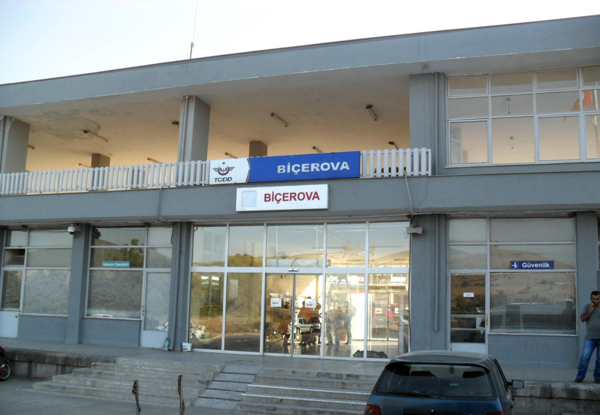 Biçerova train station in İzmir Province, Turkey